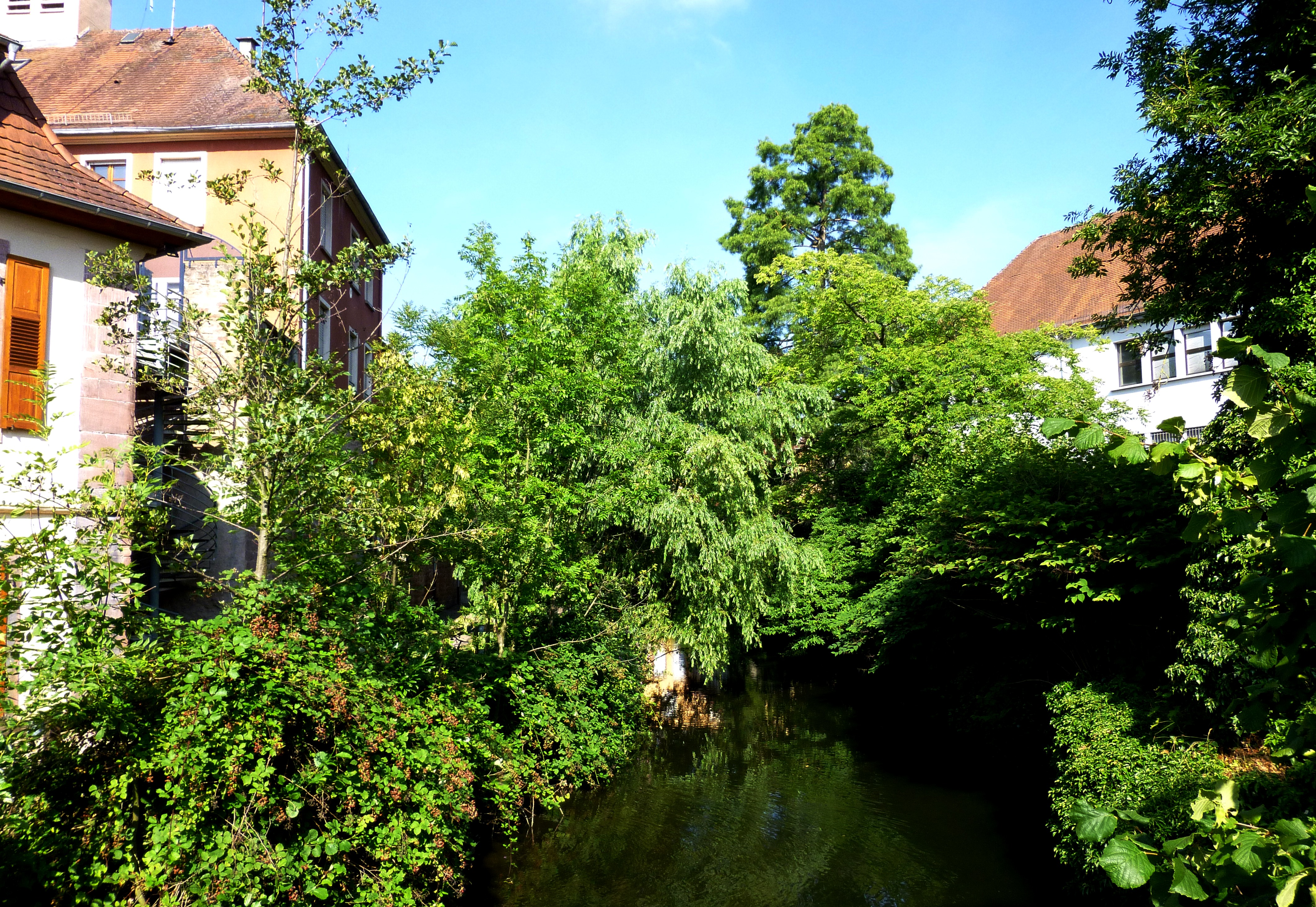 River Zorn in Saverne city centre (Alsace, France)